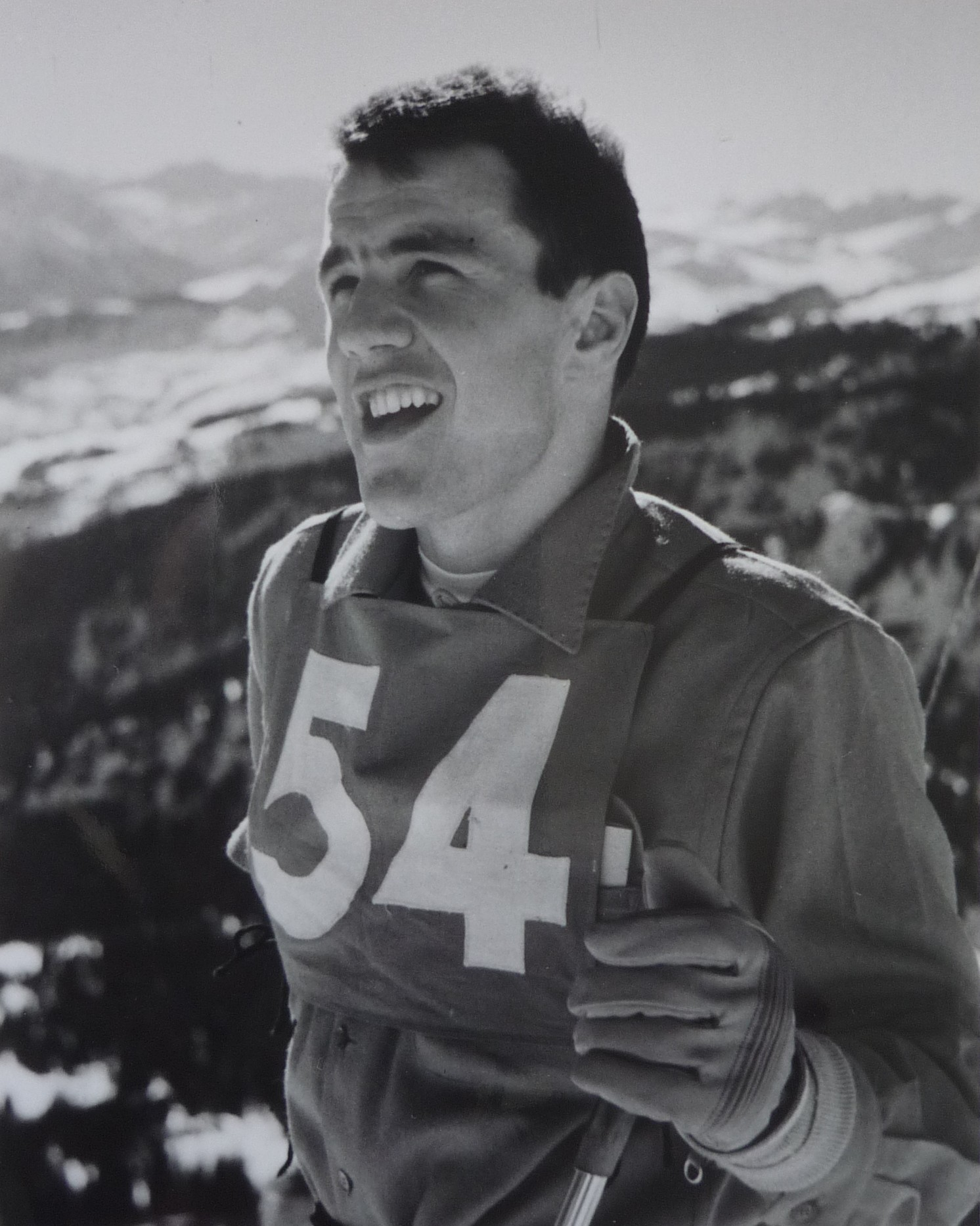 Olympic Gold Medalist and Ice hockey forward Roger Staub 1959, one year prior to his Olympic Gold, racing in Flims